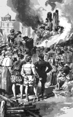 Richard Woodman (1577) Martyr